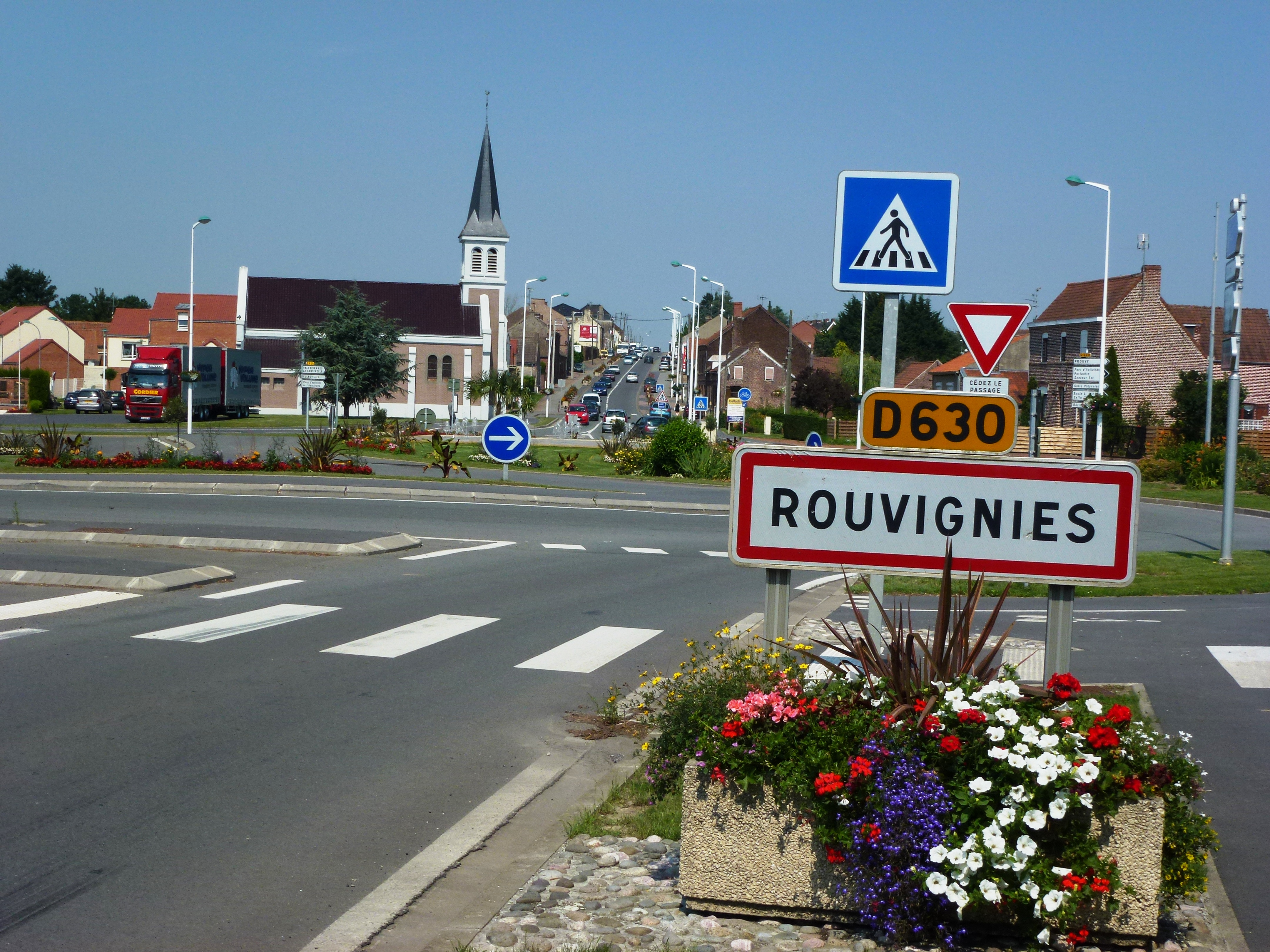 Rouvignies (Nord, Fr) city limit sign